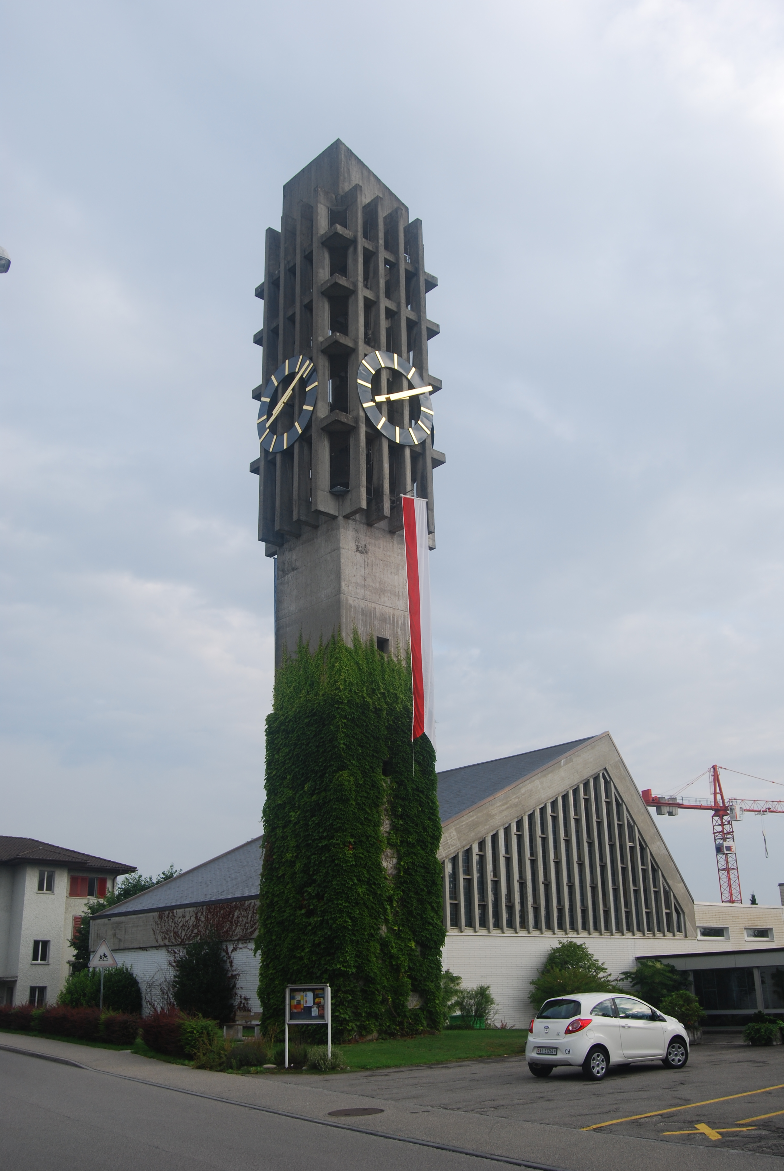 Protestant church of Strengelbach, canton of Aargau, Switzerland